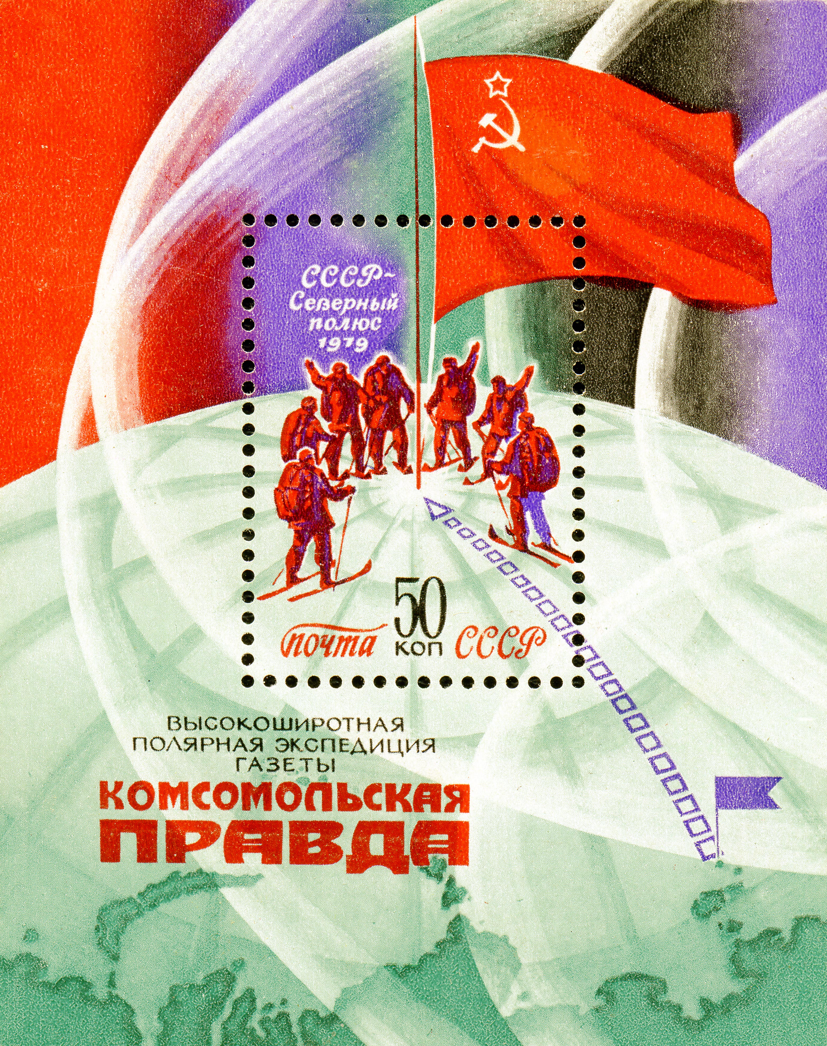 USSR postage stamp. 1979. High-latitude polar expedition of Komsomolskaya Pravda newspaper